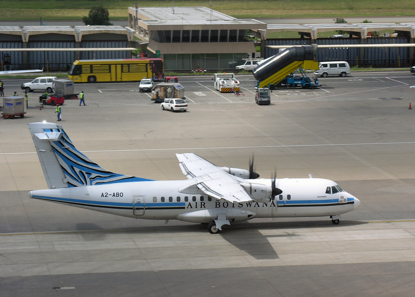 South Africa, Air Botswana ATR 42-500 A2-ABO "Okavango" taxiing at Johannesburg's O.R. Tambo International Airport